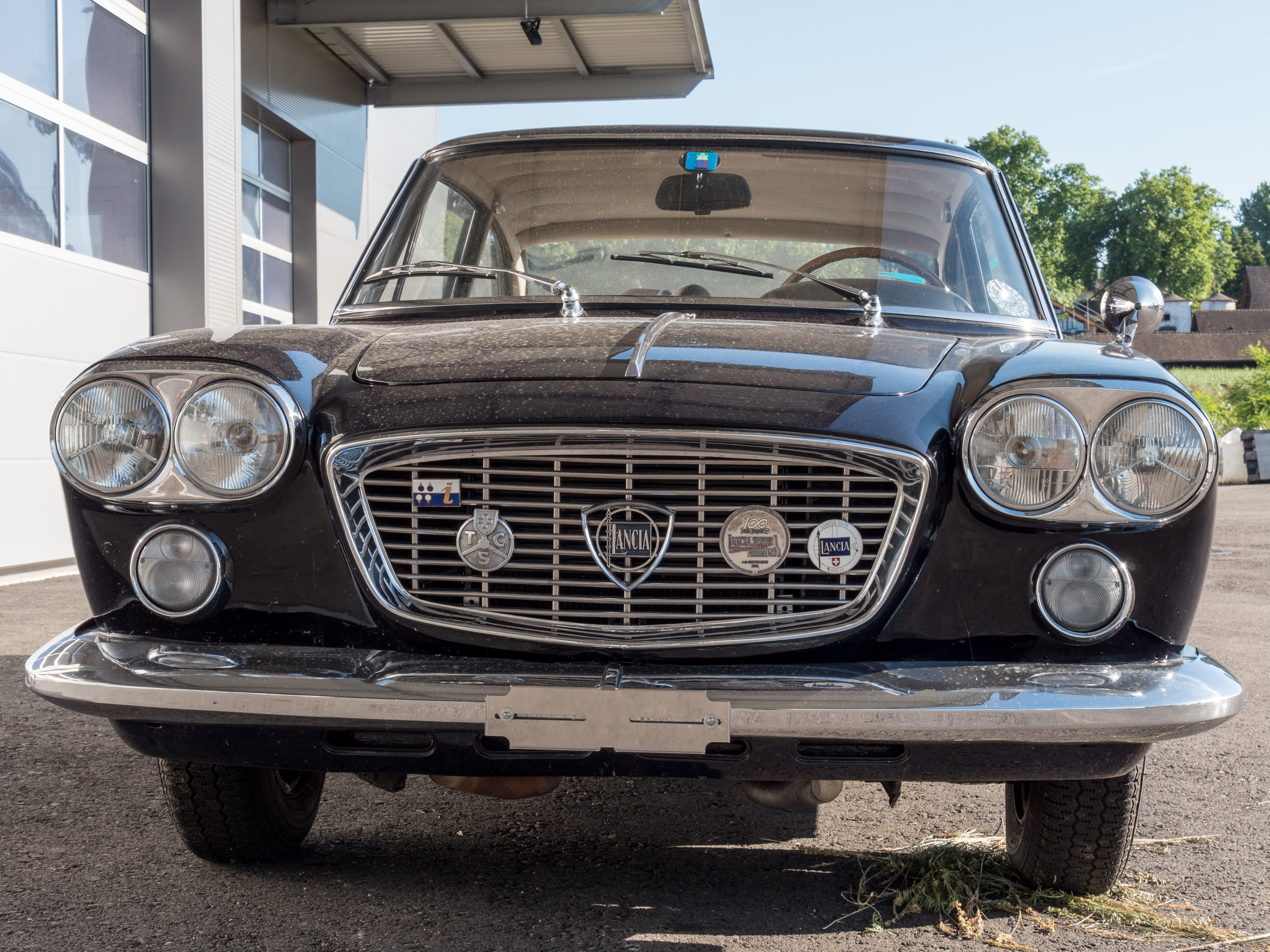 Lancia Flavia 1.8 Iniezione Coupé